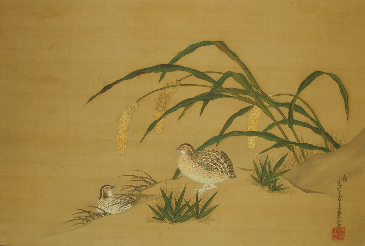 Japanese quail, Color painting on silk